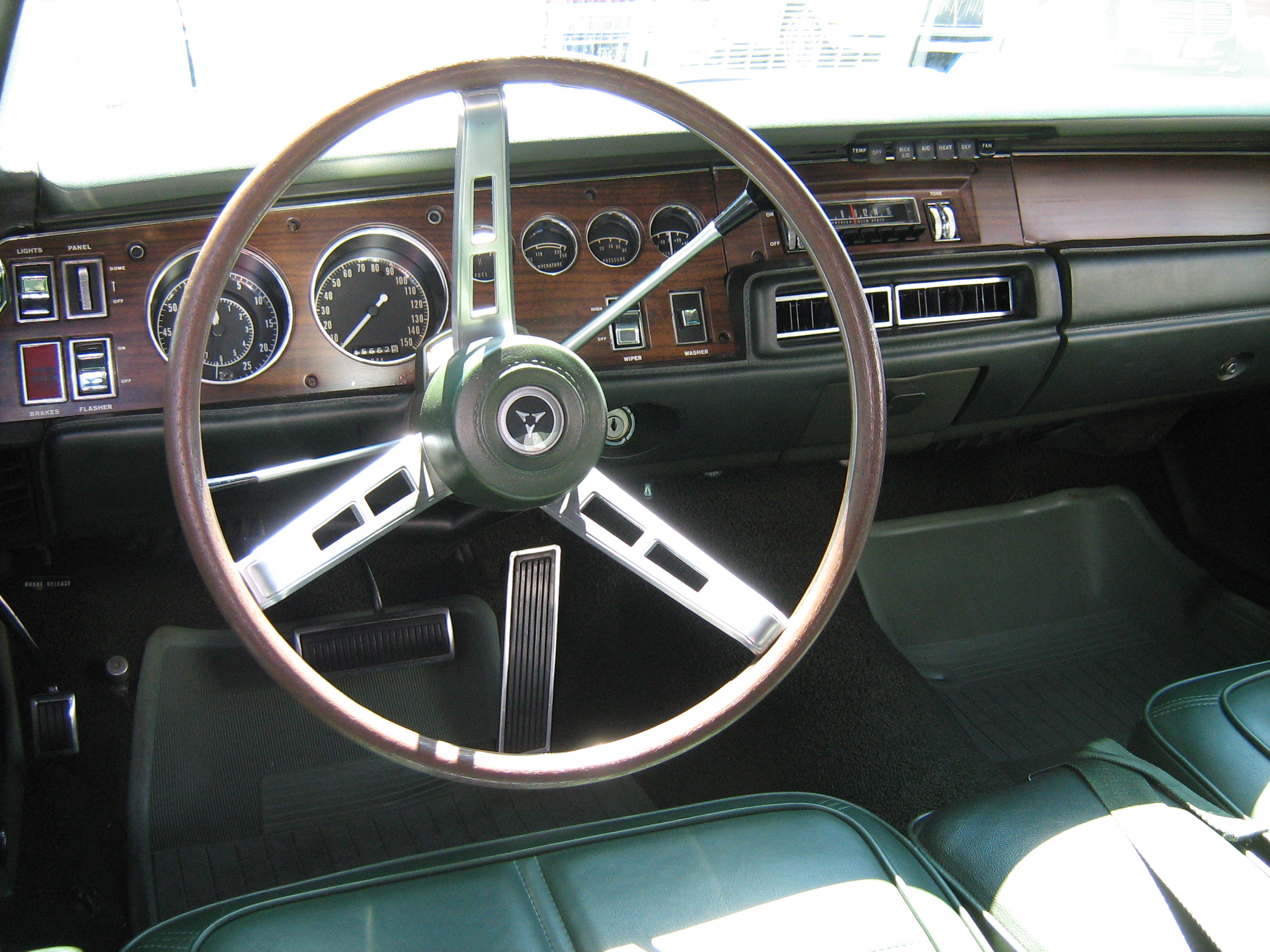 1969 Dodge Charger - interior